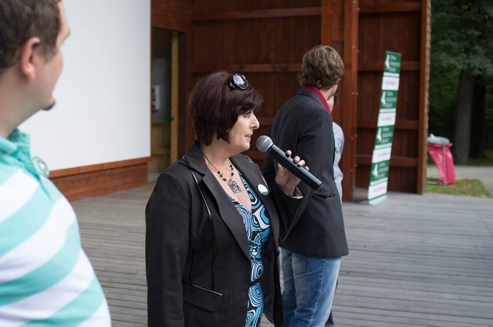 Foto z komunálních voleb 2014